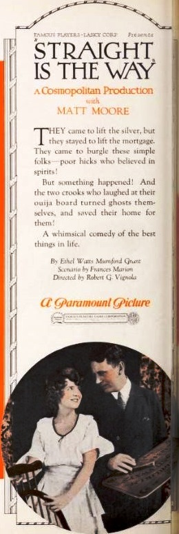 Advertisement for the American comedy film Straight Is the Way (1921) with Gladys Leslie and Matt Moore, from the insert after page 34 of the February 12, 1921 Exhibitors Herald.